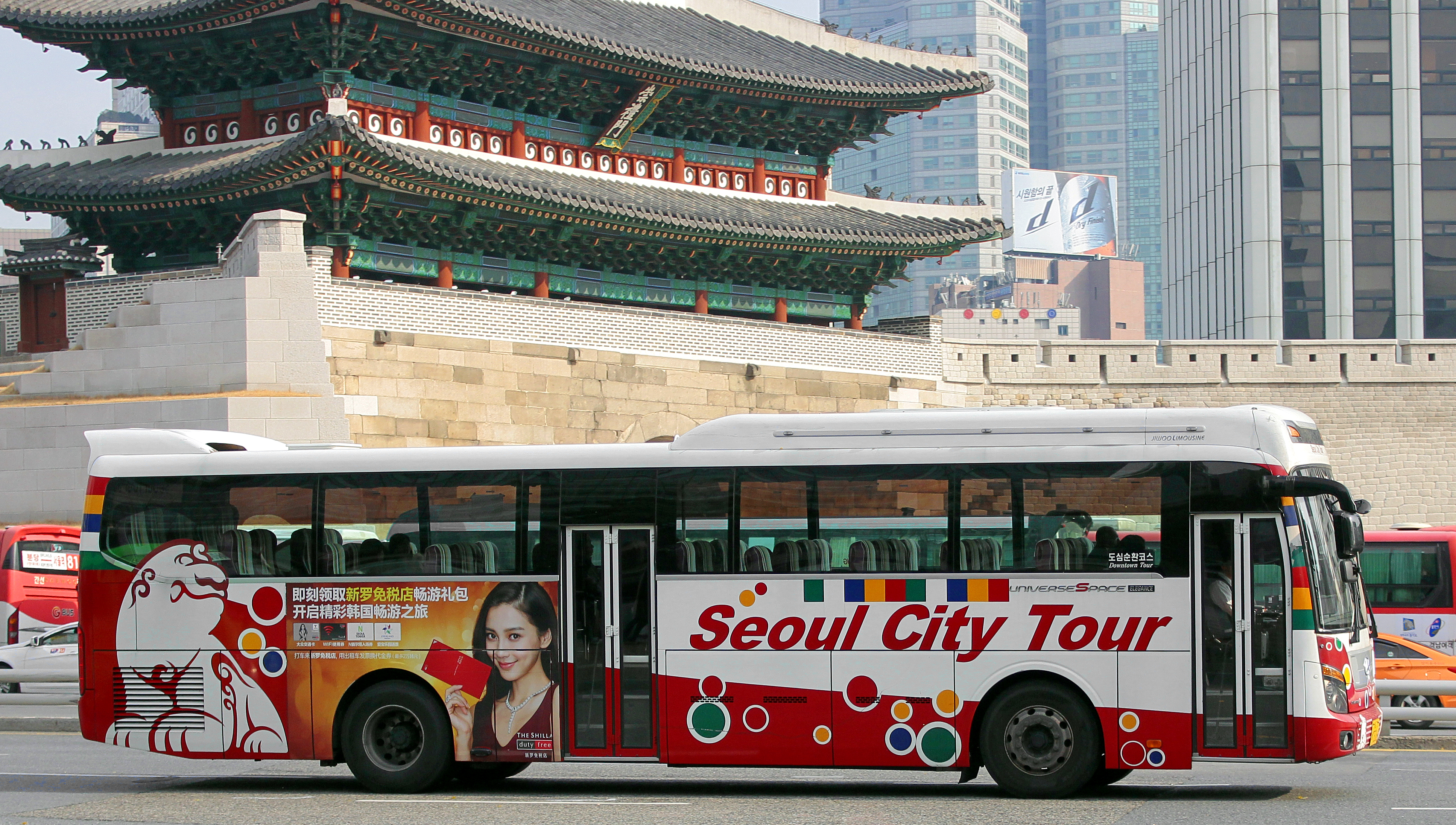 Hyundai Universe Space Elegance Motorcoach